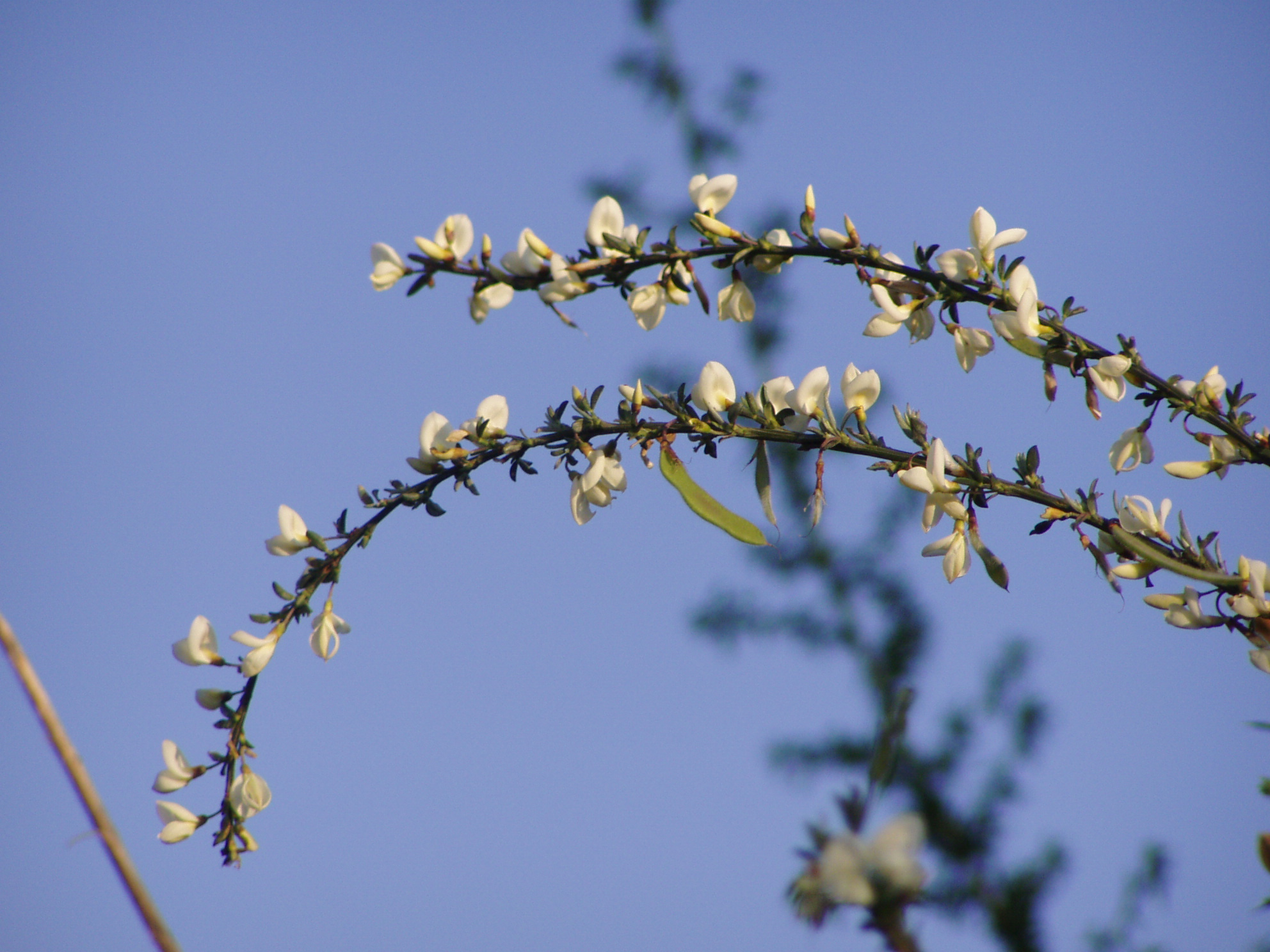 Portuguese Broom, Spanish Broom, White Broom